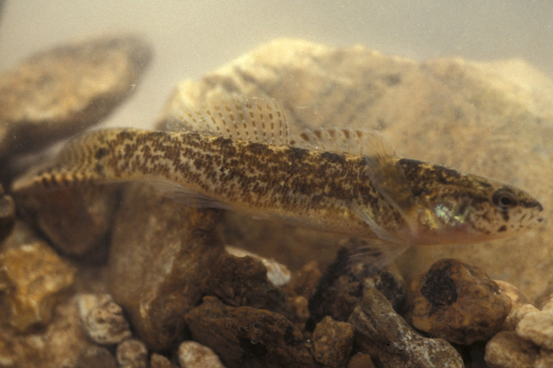 Etheostoma forbesi USFWS photo